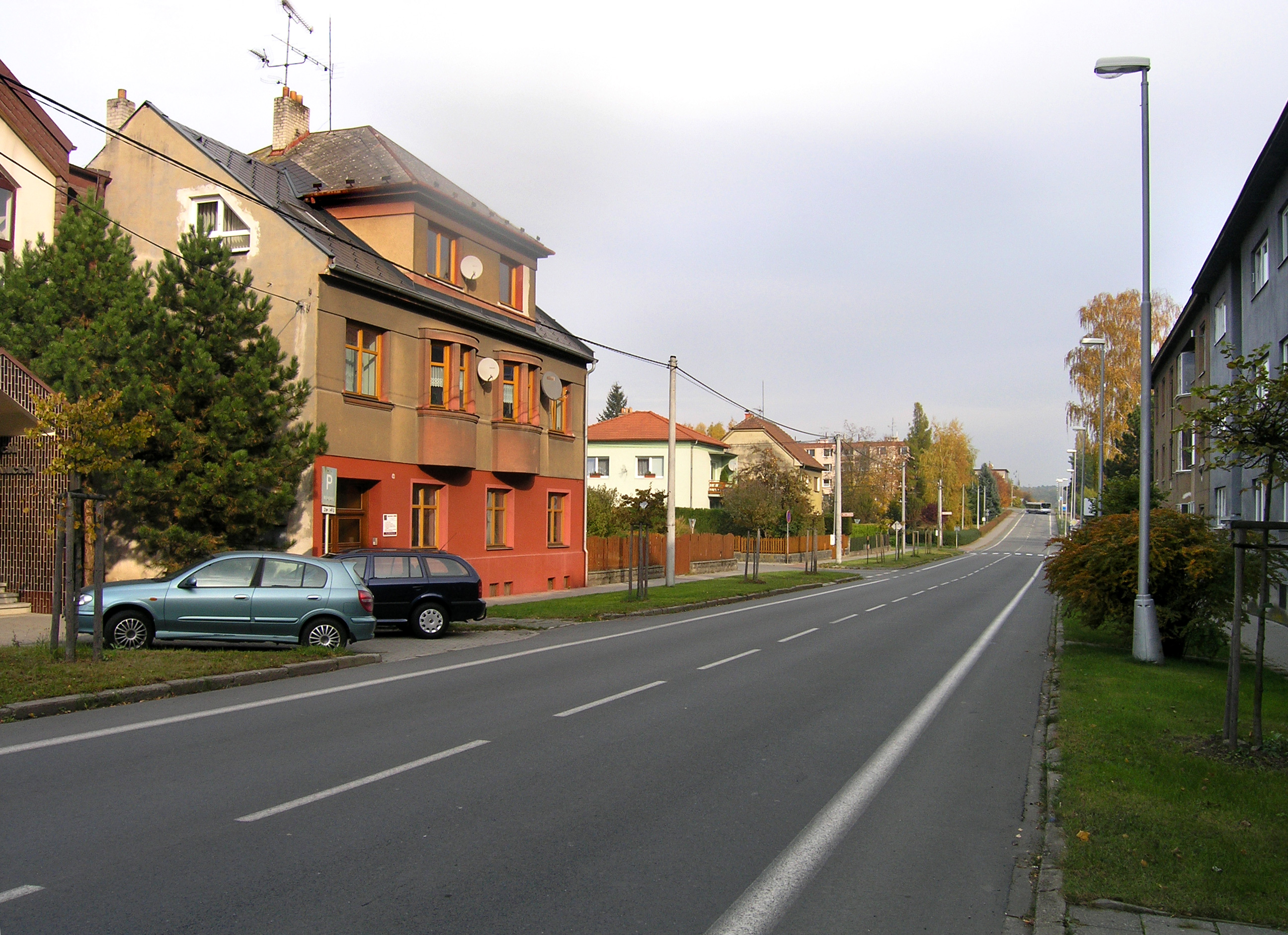 Nádražní street in Hranice, Czech Republic